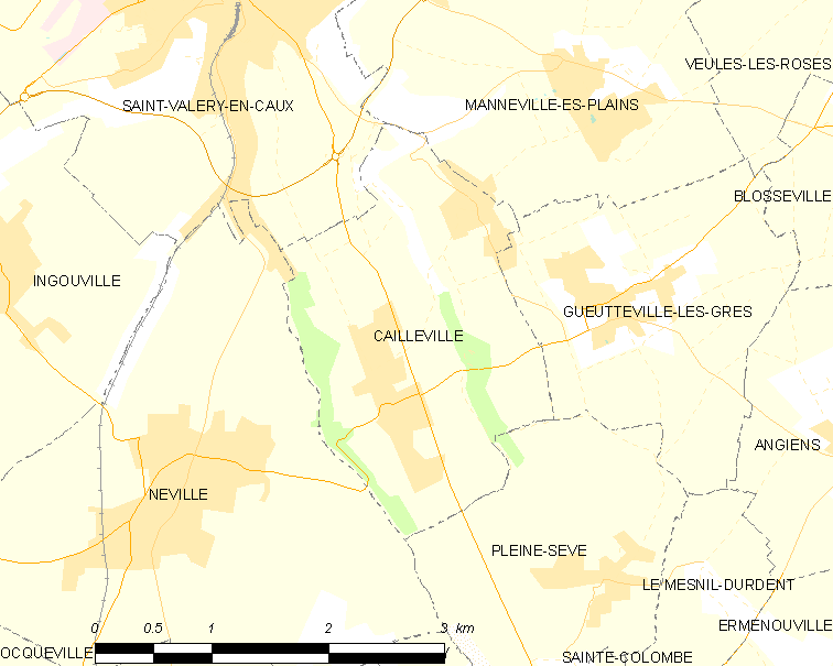 Map of French municipality Cailleville